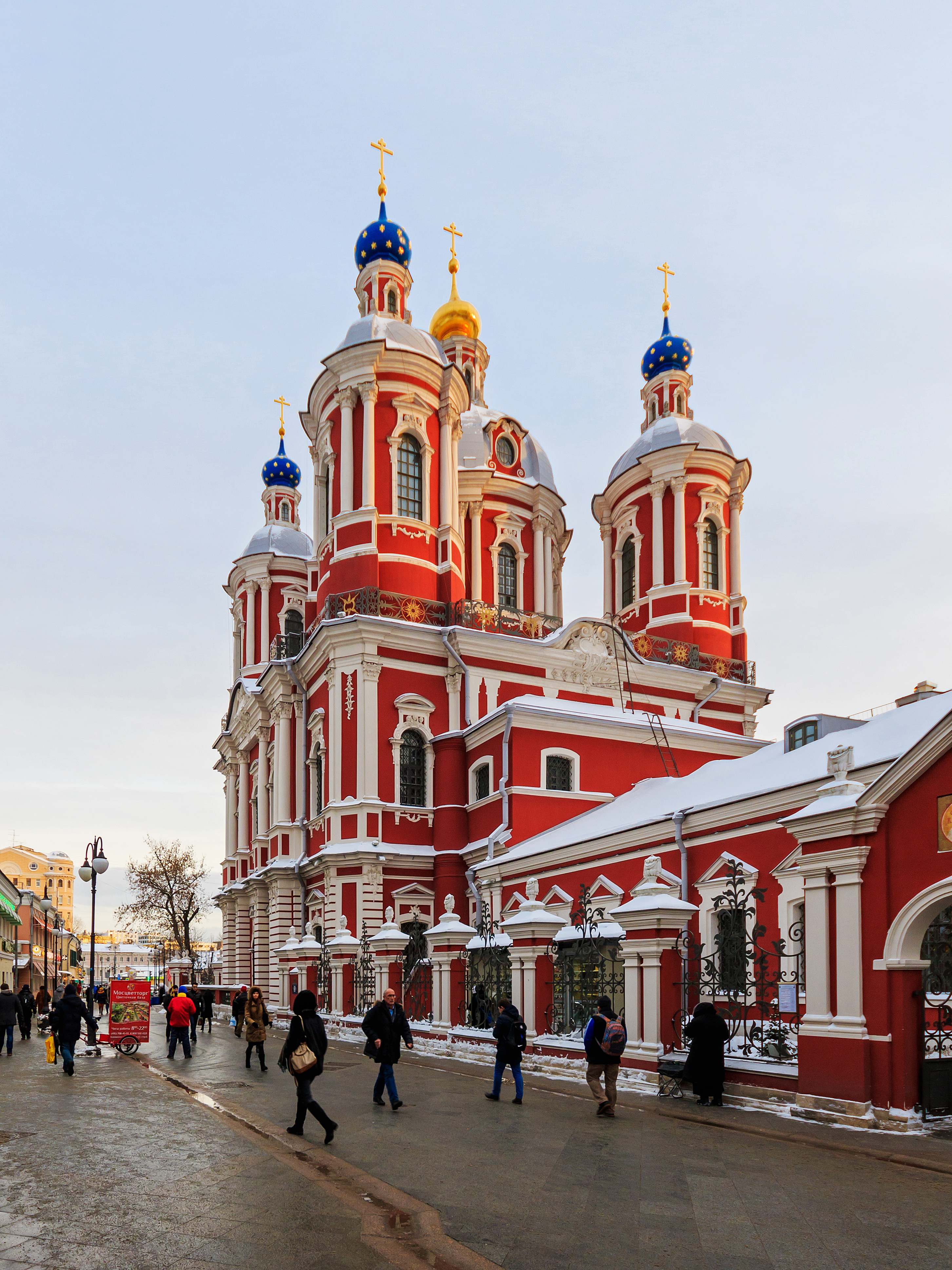 Church of Saint Clement, the Pope of Rome, in Moscow